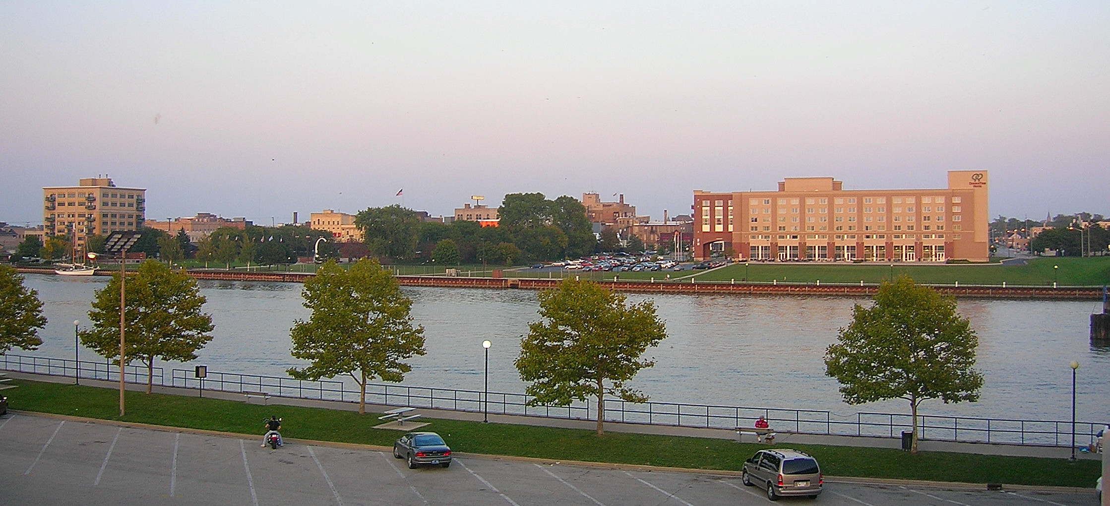 Bay City, looking East from Veterans Memorial Park. Bay City, Michigan at dusk. Bay City, Michigan.